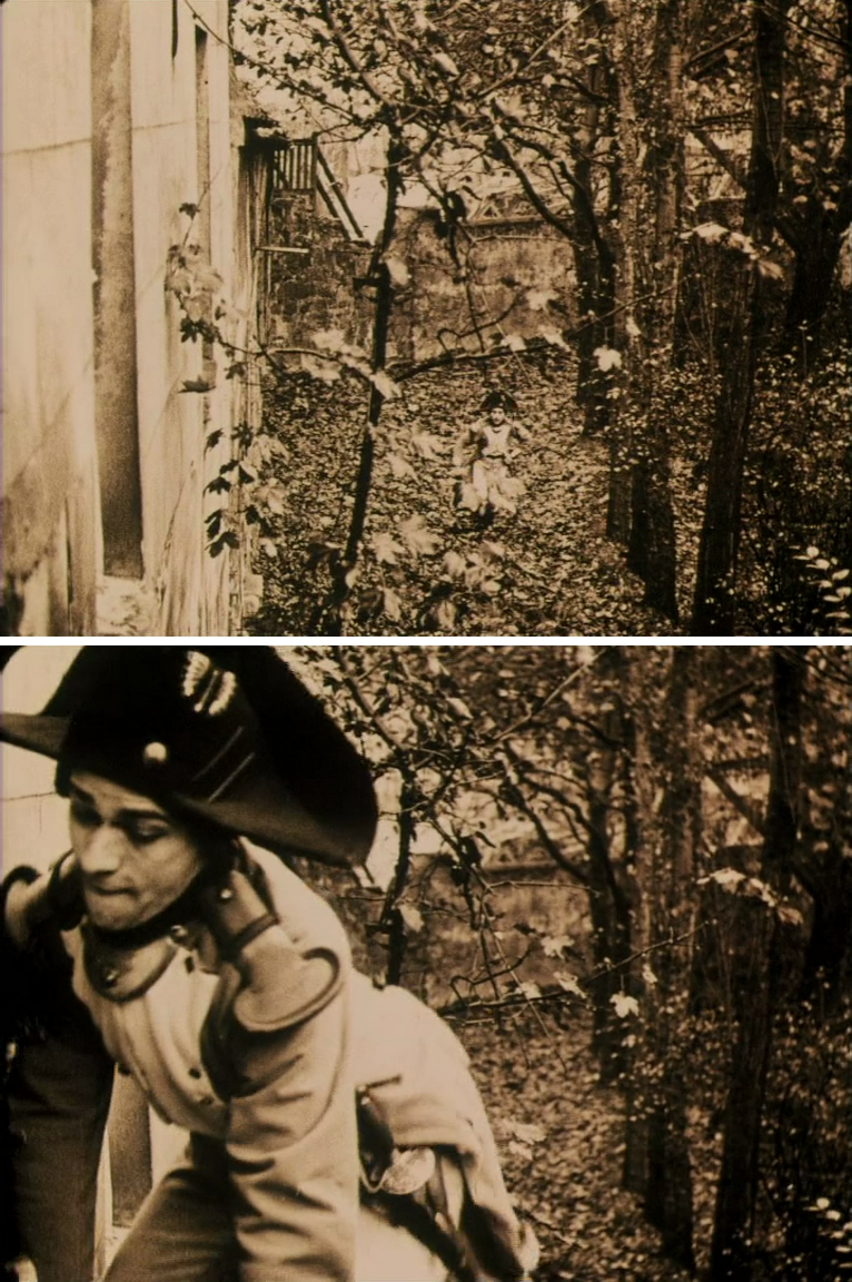 Extremes of frame depth in the film Le chevalier de Maison-Rouge (1914)